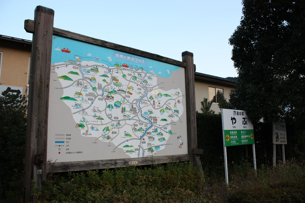 Roadside Station Yabu Sign board